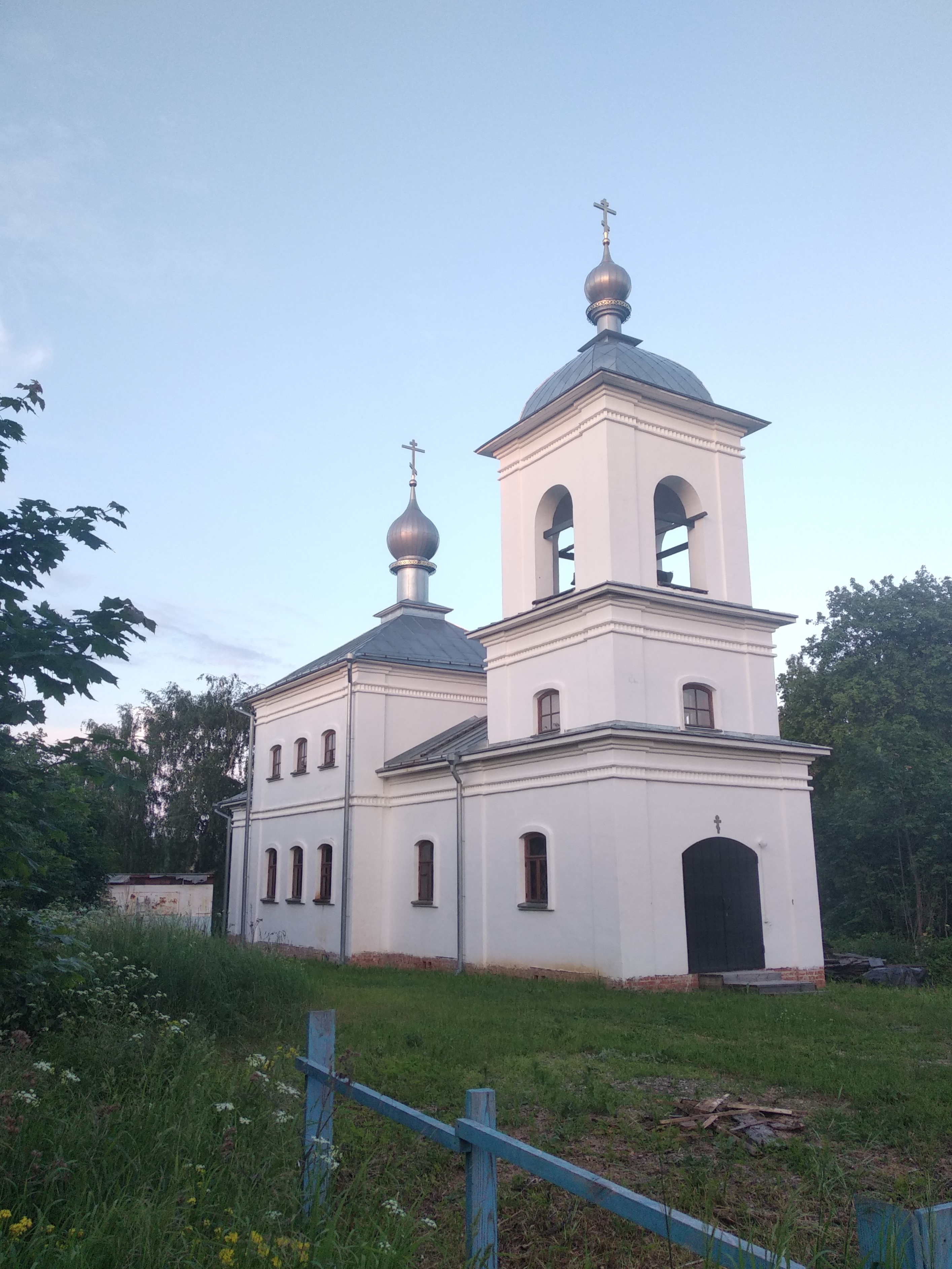 St. Elijah Church in Shurskol village